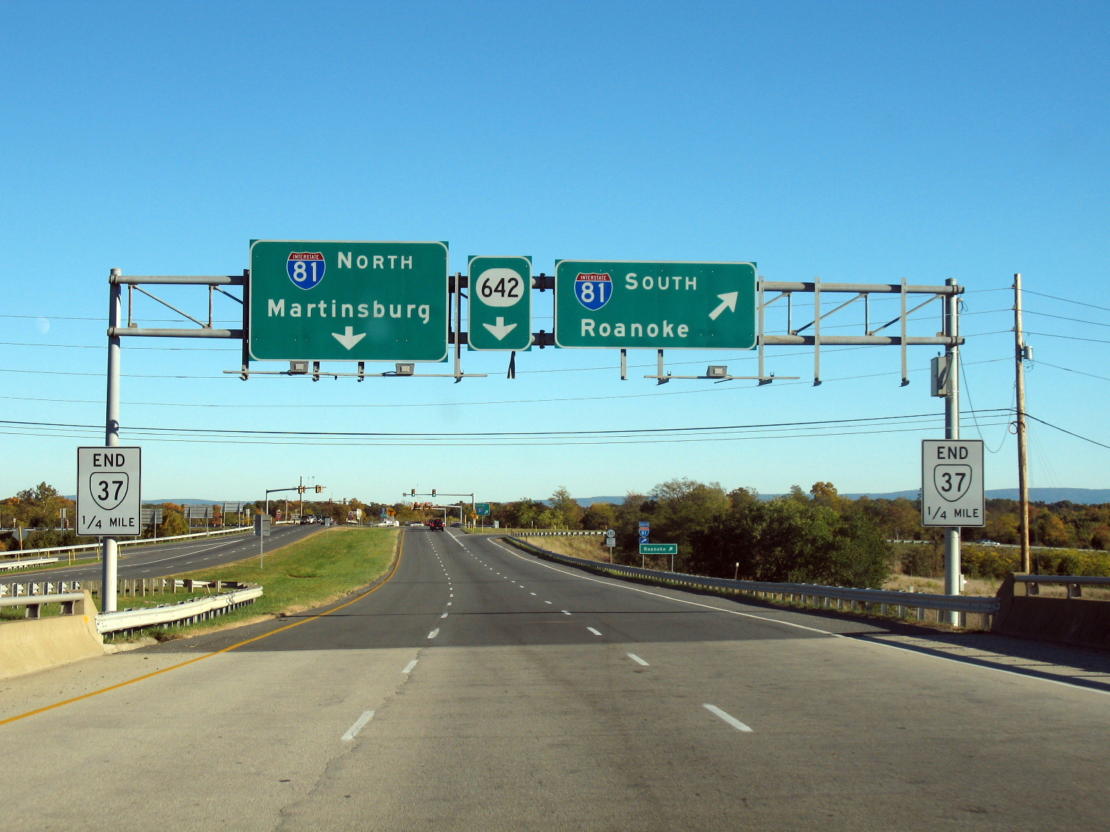 The southern terminus of Virginia State Route 37 in Winchester, Virginia